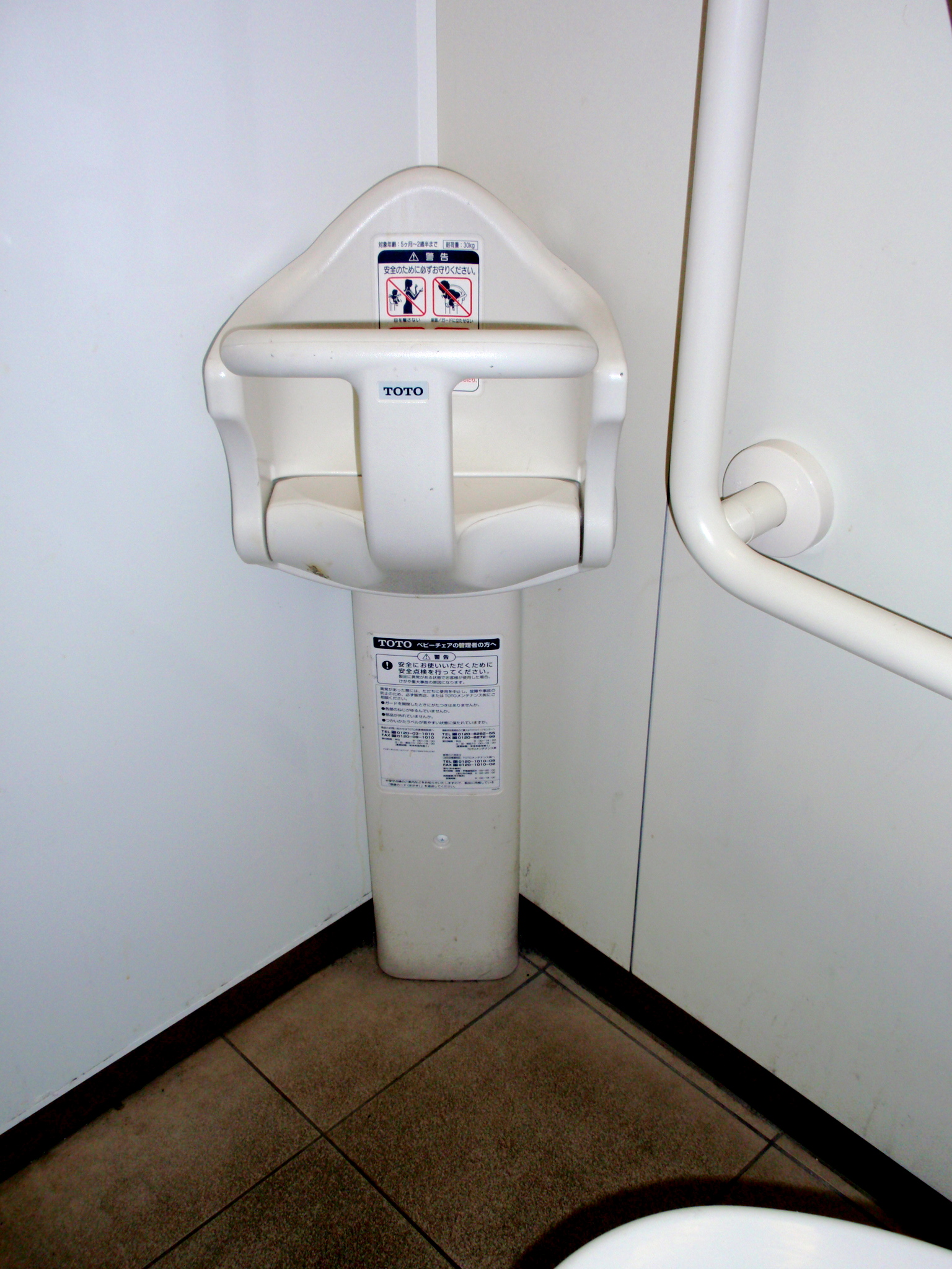 Baby chair in Japanese public toilet